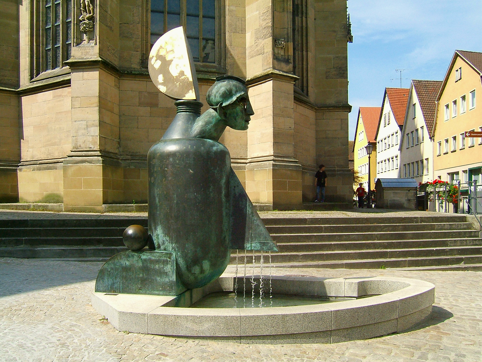 sculpture in Schorndorf, Germany